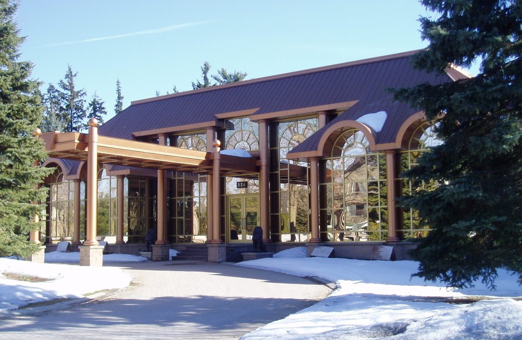 Michael Cowpland's house. Taken by SimonP